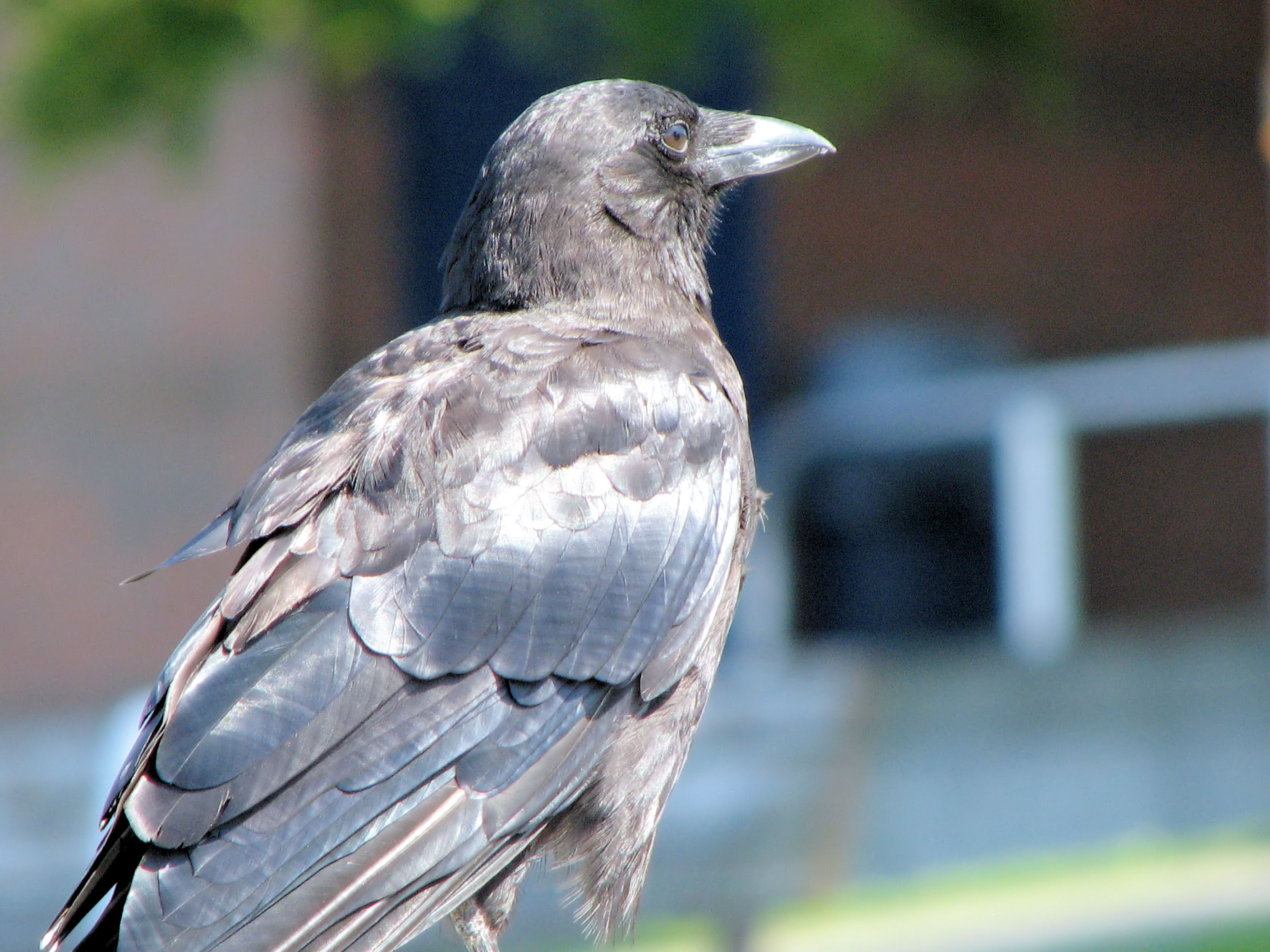 Common american crow, Category:Corvus brachyrhynchos.